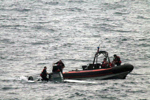 Self-propelled semi-submersible laden with 7 tons of cocaine is being seized by elements of the U.S. Coast Guard 200 miles south from Guatemala. Two similar seizures on September 12 and September 17, 2008. Images and videos of this operation at the US Coast Guard web site